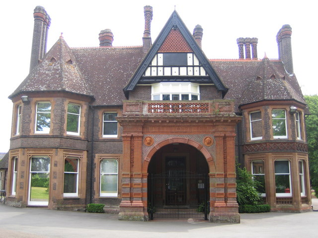 Luton: Wardown Park Museum One of two museums run by Luton Culture. This one is housed in this Victorian mansion in the grounds of Wardown Park. The 1888 Ordnance Survey mapping shows this building as Bramingham Shot.